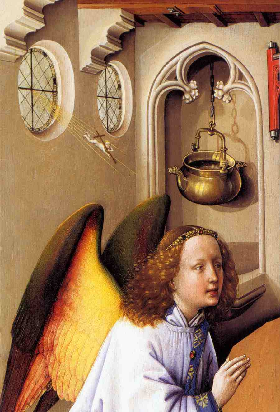 The Mérode Altarpiece (Central panel) Oil on wood, 64,1 x 117,8 cm Metropolitan Museum of Art, New York